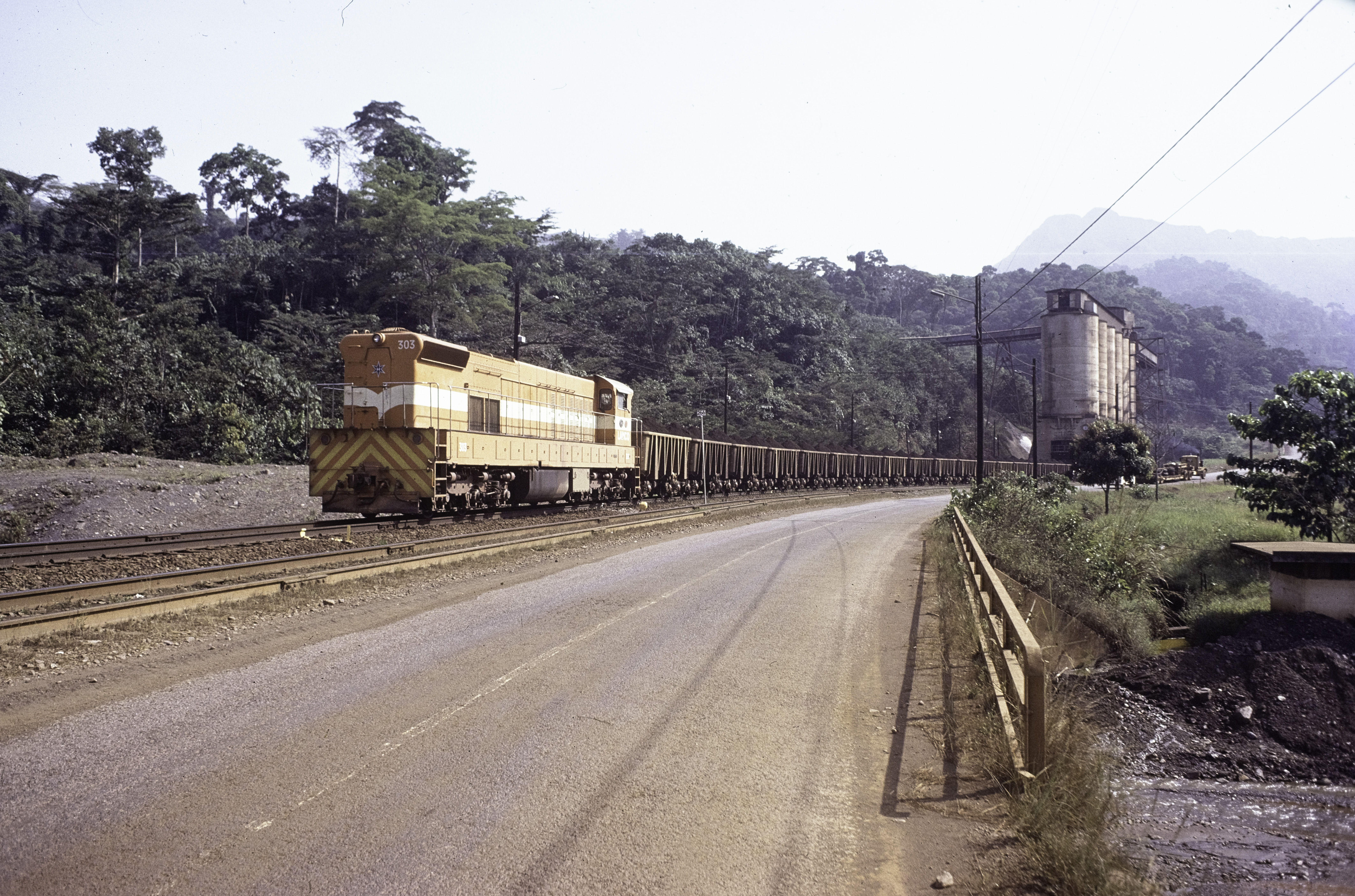 LAMCO J.V. Conveyor belt to silos. Locomotive nr. 303 with wagons loaded with iron ore. A loaded lorry. Mountains on the horizon, vegetation. A paved road.